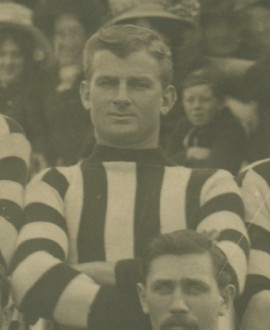 Photograph of Ned Harper in 1910